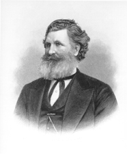 From the Library of Congress